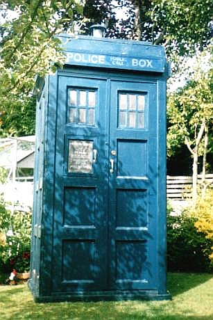 The TARDIS, a time-travelling machine disguised as a police box, as seen in the popular British science-fiction television series Doctor Who. This particular example is a fan-built replica. Taken by Paul Hayes in July 1999, and later scanned in and uploaded to Wikimedia by same. This particular replica box is based upon an old series (1963-1989) Season 18 version of the TARDIS, known as the Yardley-Jones Box (because of its TV Prop designer Tom Yardley-Jones) by fans. This design of prop was used from the Season 18 (Fourth Doctor) through to the last season, number 26 with the Seventh Doctor.